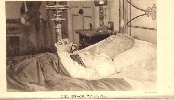 Pius X just expired, in 20 August 1914, composed in the bed of his room